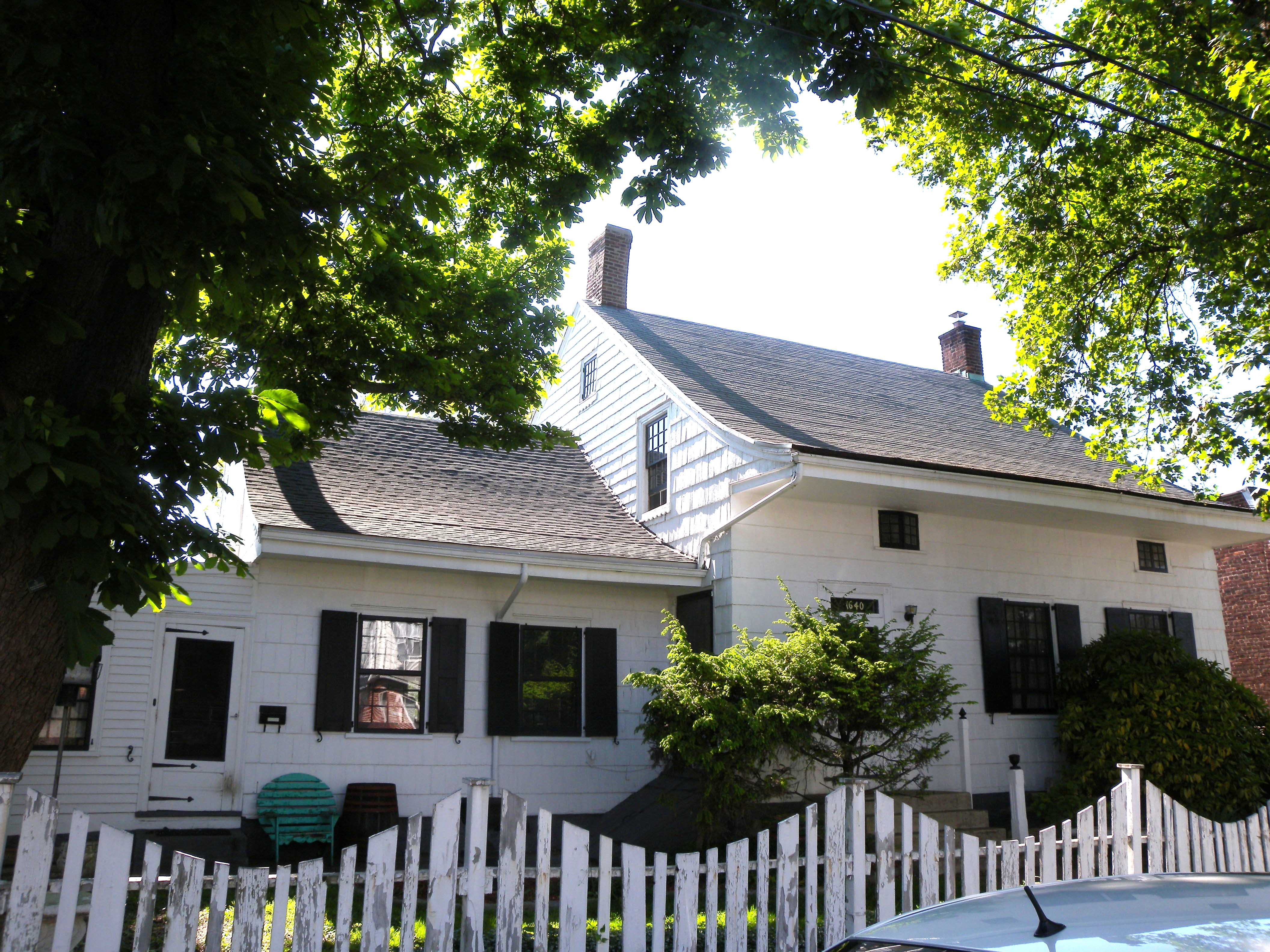 Looking west at John and Altje Baxter House, aka Stoothoff-Baster-Kouwenhoven House part built c 1747, at 1640 East 48th Street, Flatlands on a sunny afternoon. NYCLPC designation 1976.